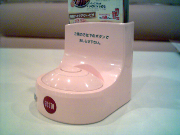 Wireless OrderBell「Order_Entry_System」Gusto_Restaurant_japan photography day, 2006.10.26. photography person kici オーダーエントリーシステム ファミリーレストラン すかいらーく